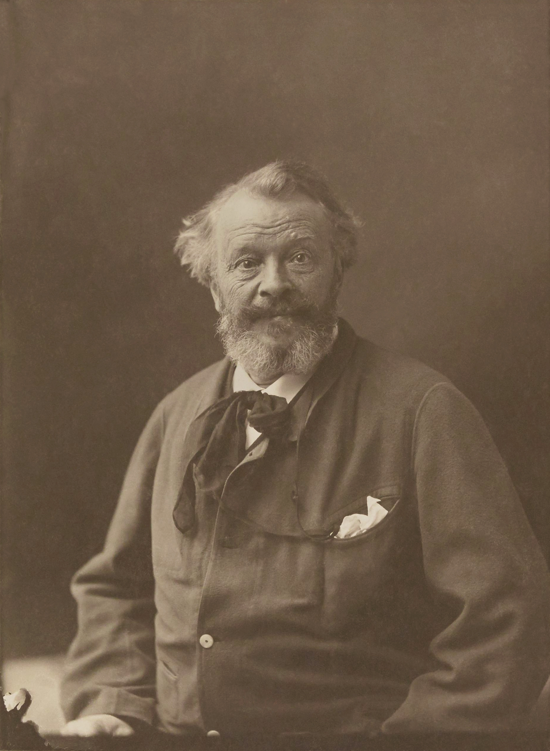 Self portrait of Félix Nadar, bearded, half-length, from the front